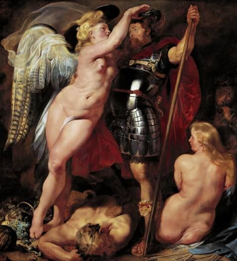 Pendant of File:Peter Paul Rubens cat01.jpg